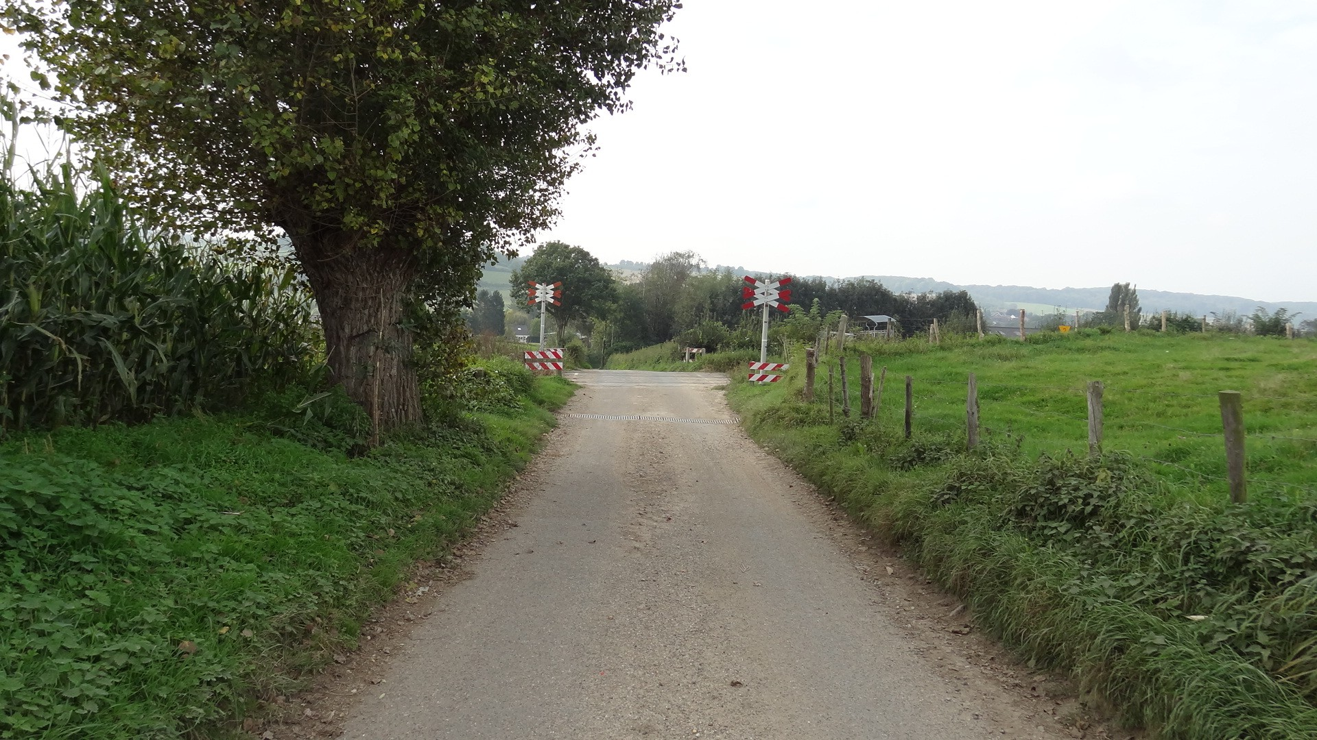 Film location of grandfather's train accident in the film "Flodder" 1